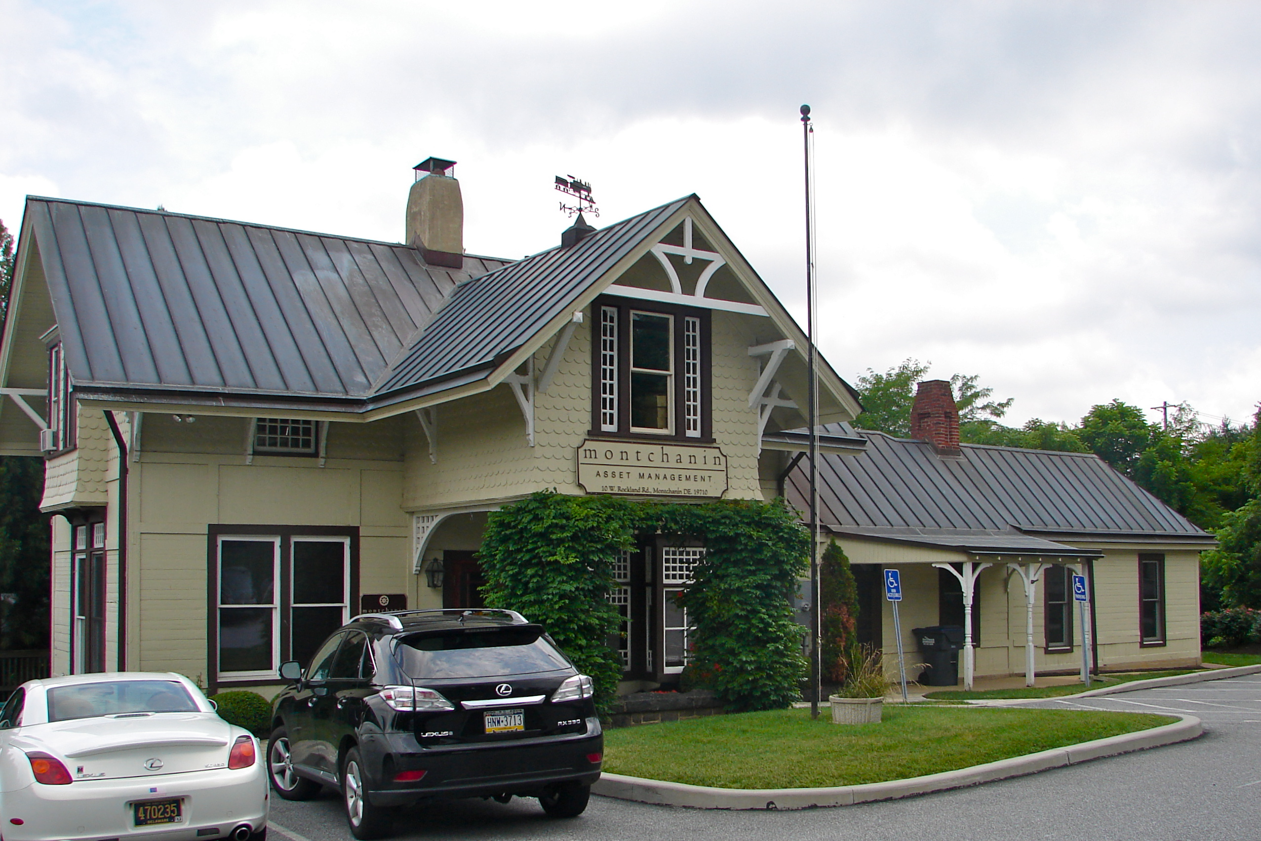 Montchanin Railway Station in Montchanin Historic District on the NRHP since June 9, 1978. At Delaware Route 100, in Montchanin, Delaware - about a mile north of Wilmington (center of DuPont family activity in the area).